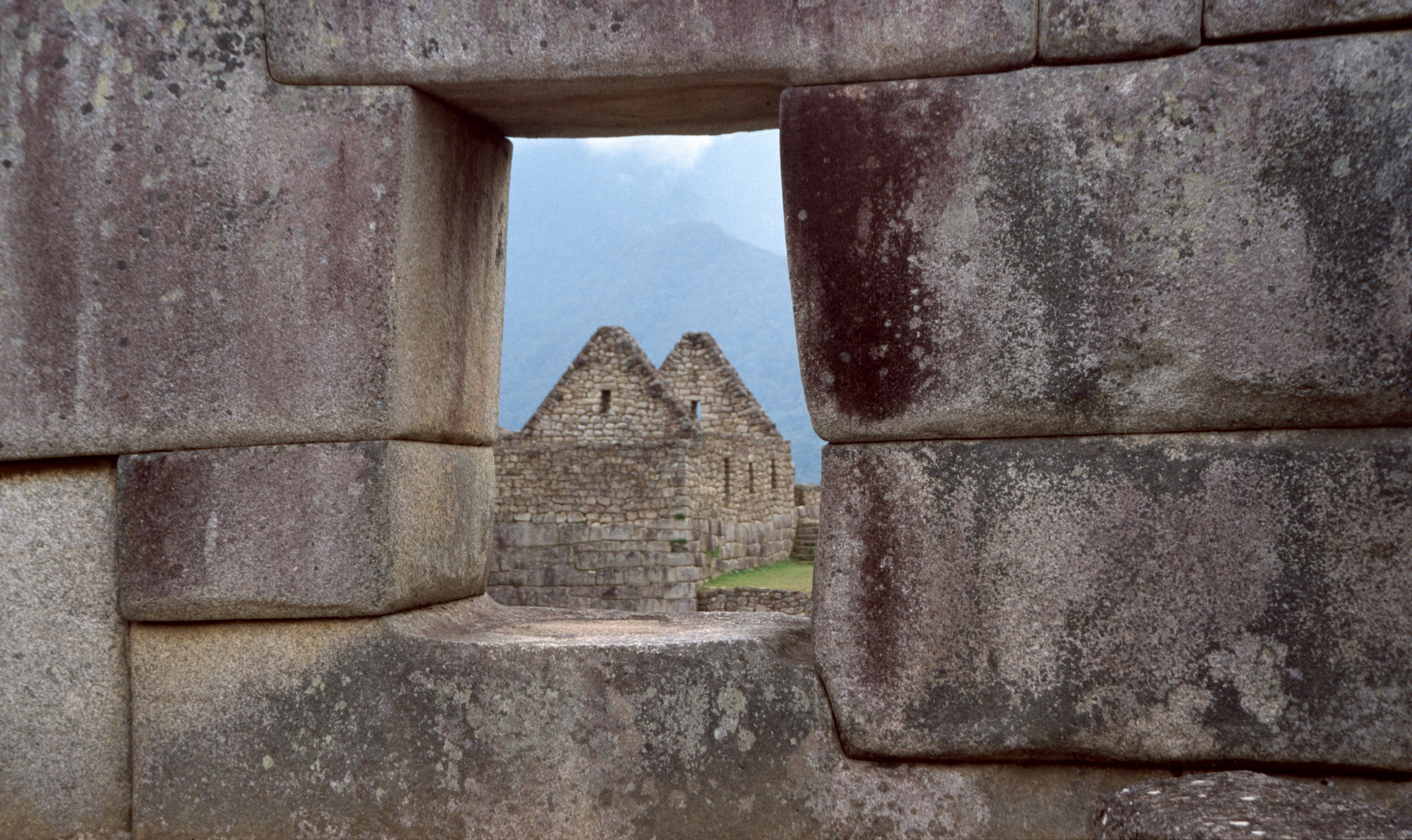 Machu Picchu, Perú. Masonery detail and view from a window of Temple of Tree Windows.